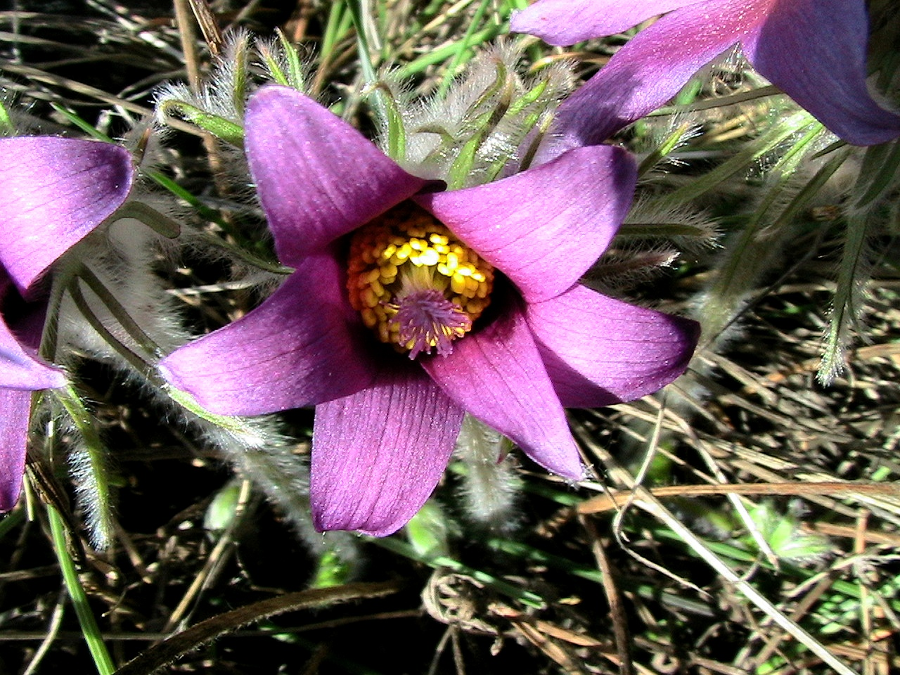 Pulsatilla rubra. In Montsec de Rúbies (Pallars Jussà - Catalunya). To 1.430 m. altitude